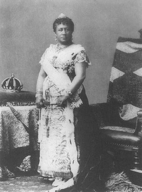 Queen Kapiolani's coronation portrait.